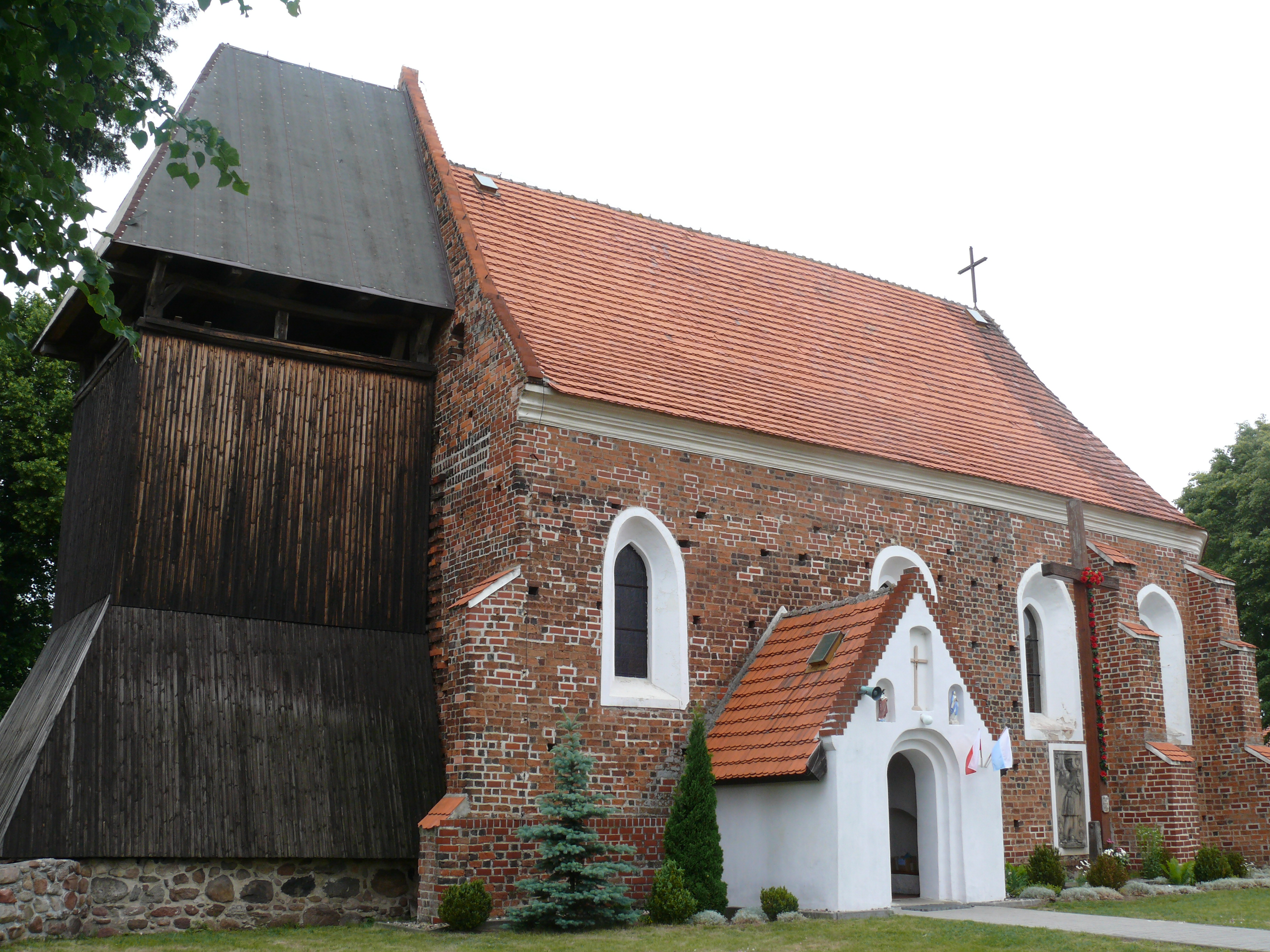 Church of the Holy Trinity. Poland